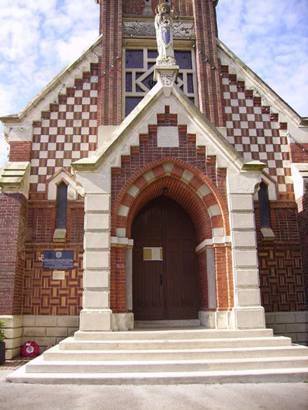 Authuille Church